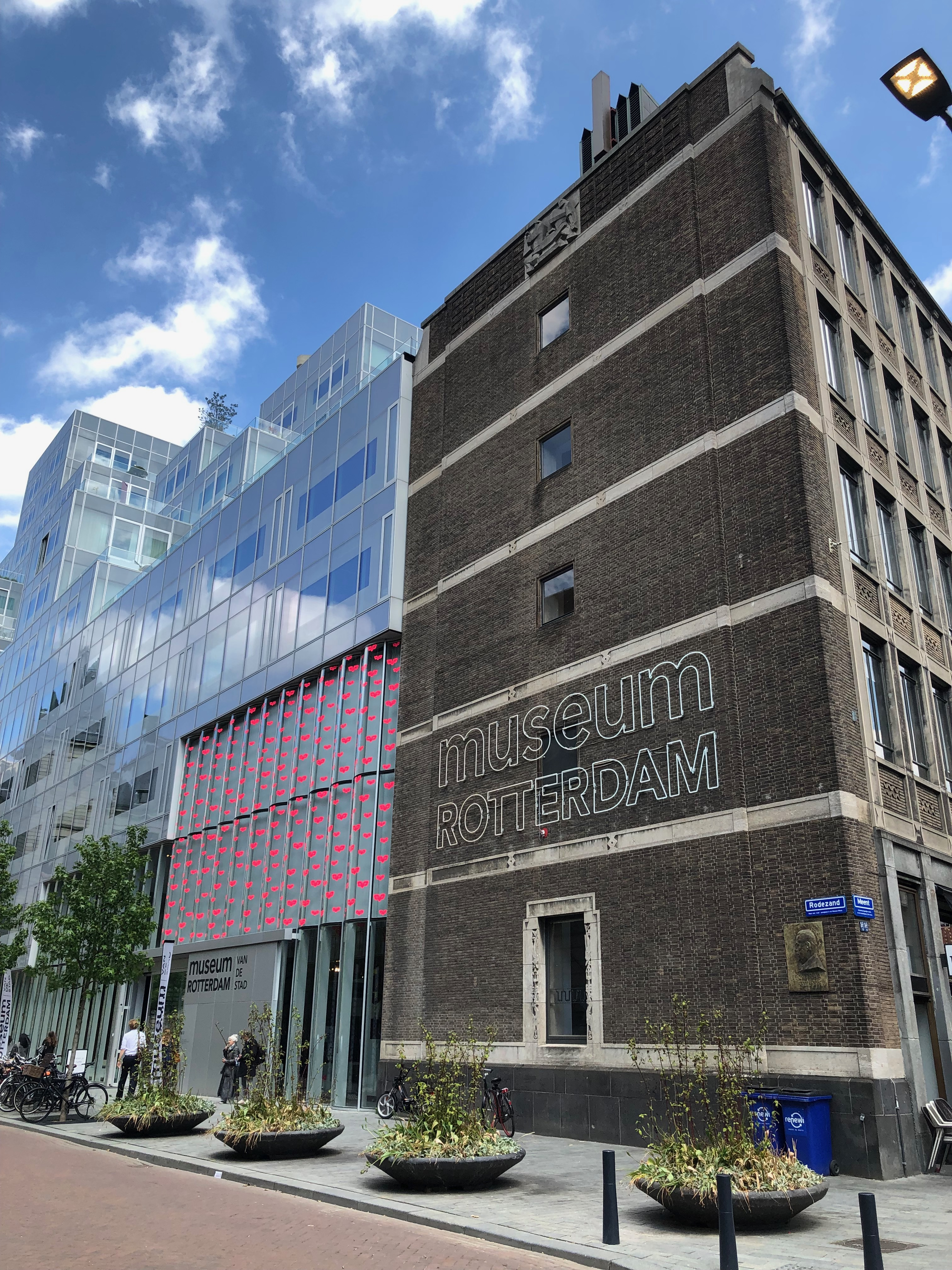 Entrance of Museum Rotterdam